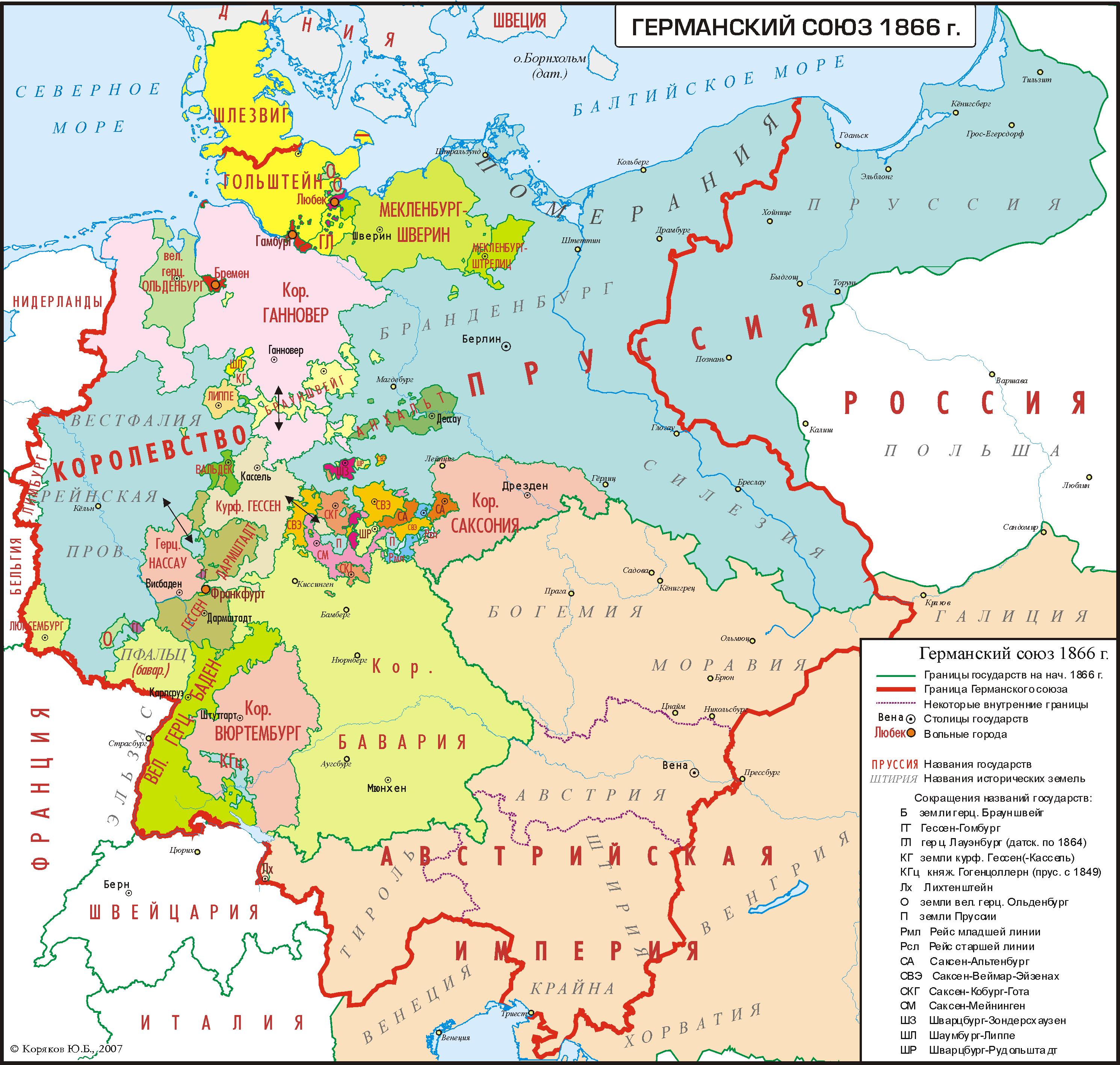 Borderd of German Confederation before Austro-Prussian War 1866